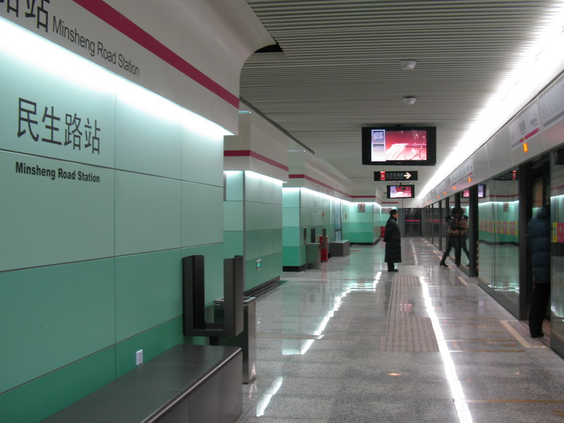 Line 6 Platform of Minsheng Road Station